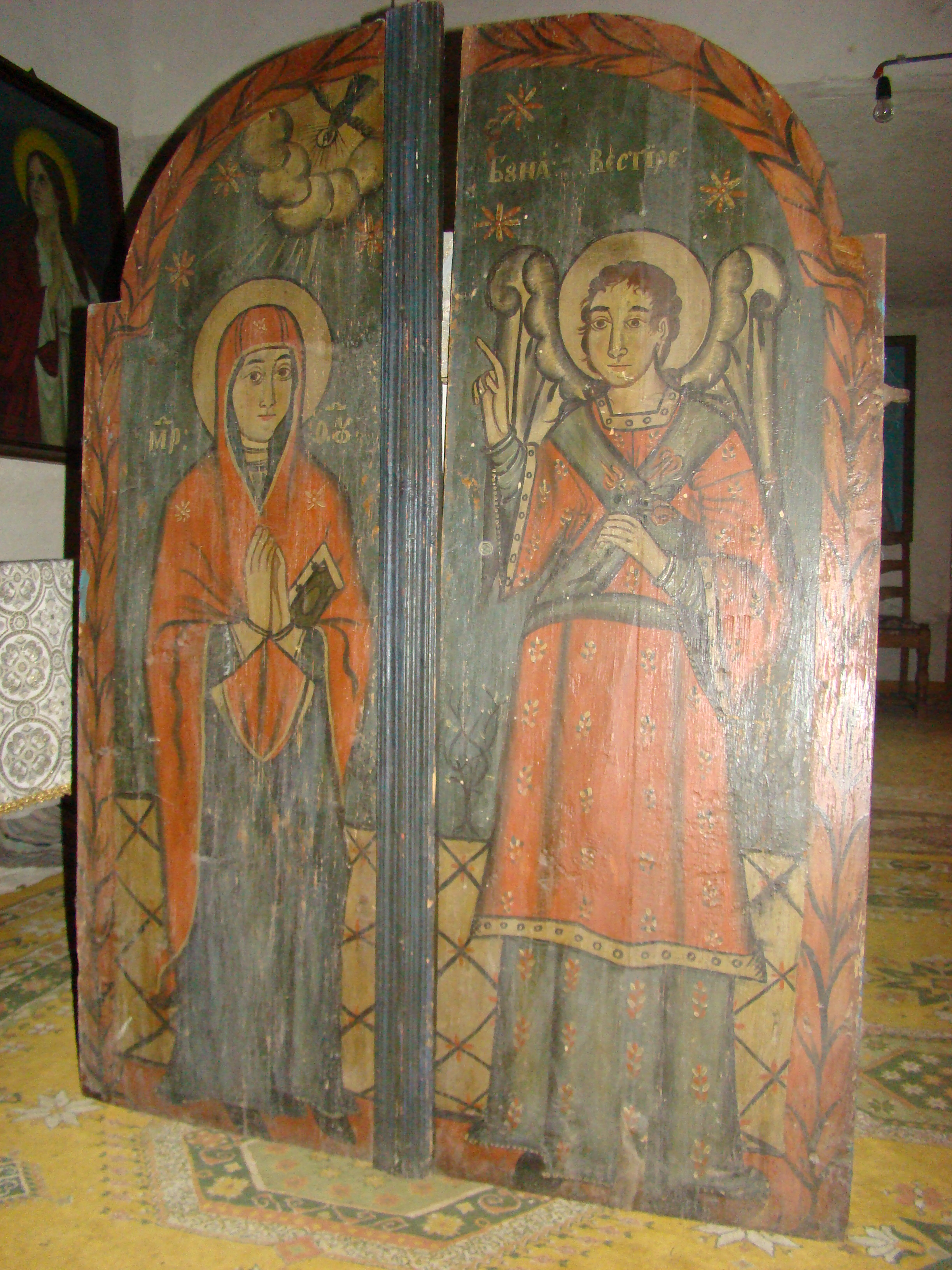 the Izbuc Orthodox monastery near Călugări village, Codru-Moma Mountains, Romania